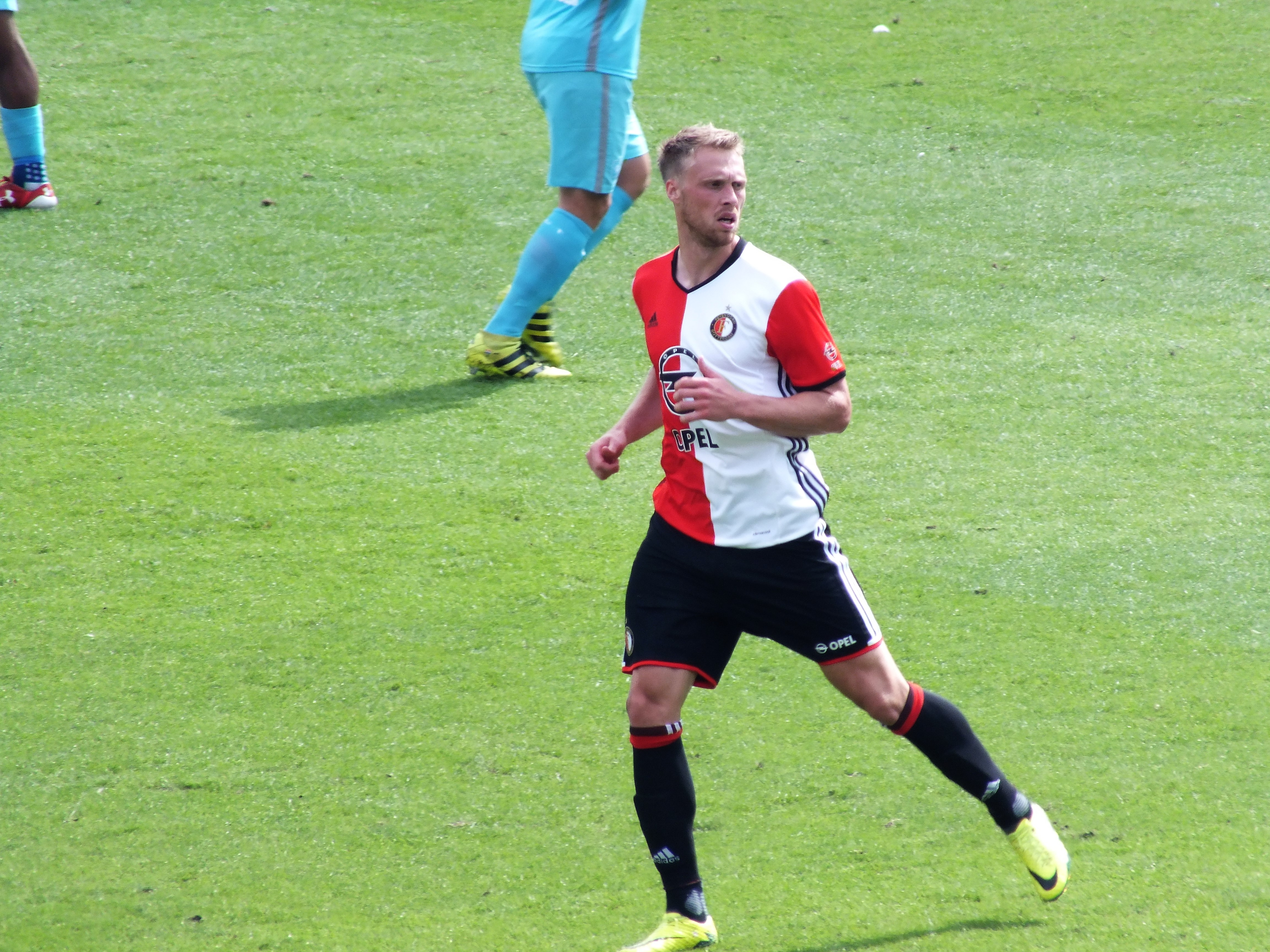 Nicolai Jørgensen playing a home game for Feyenoord.